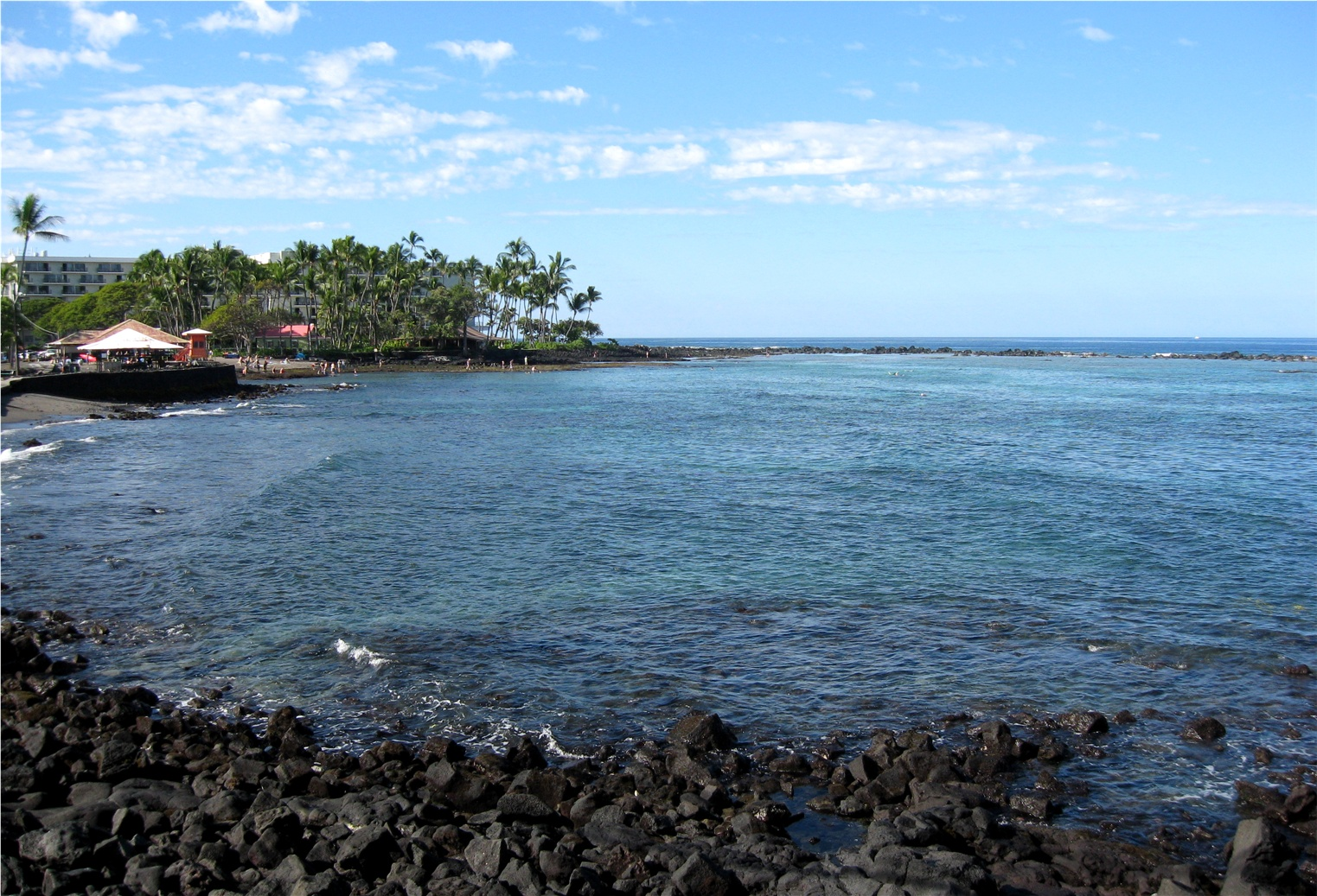 Kahaluʻu Bay — on the Big Island of Hawaiʻi. A popular snorkeling spot.